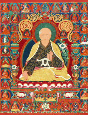 Thangka Depicting Sachen Kunga Nyingpo, Tibet, Ngor Monastery, circa 1600, 31 by 26 in. (78.7 by 66 cm)